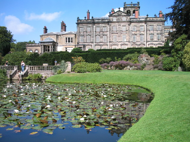 Biddulph Grange Gardens